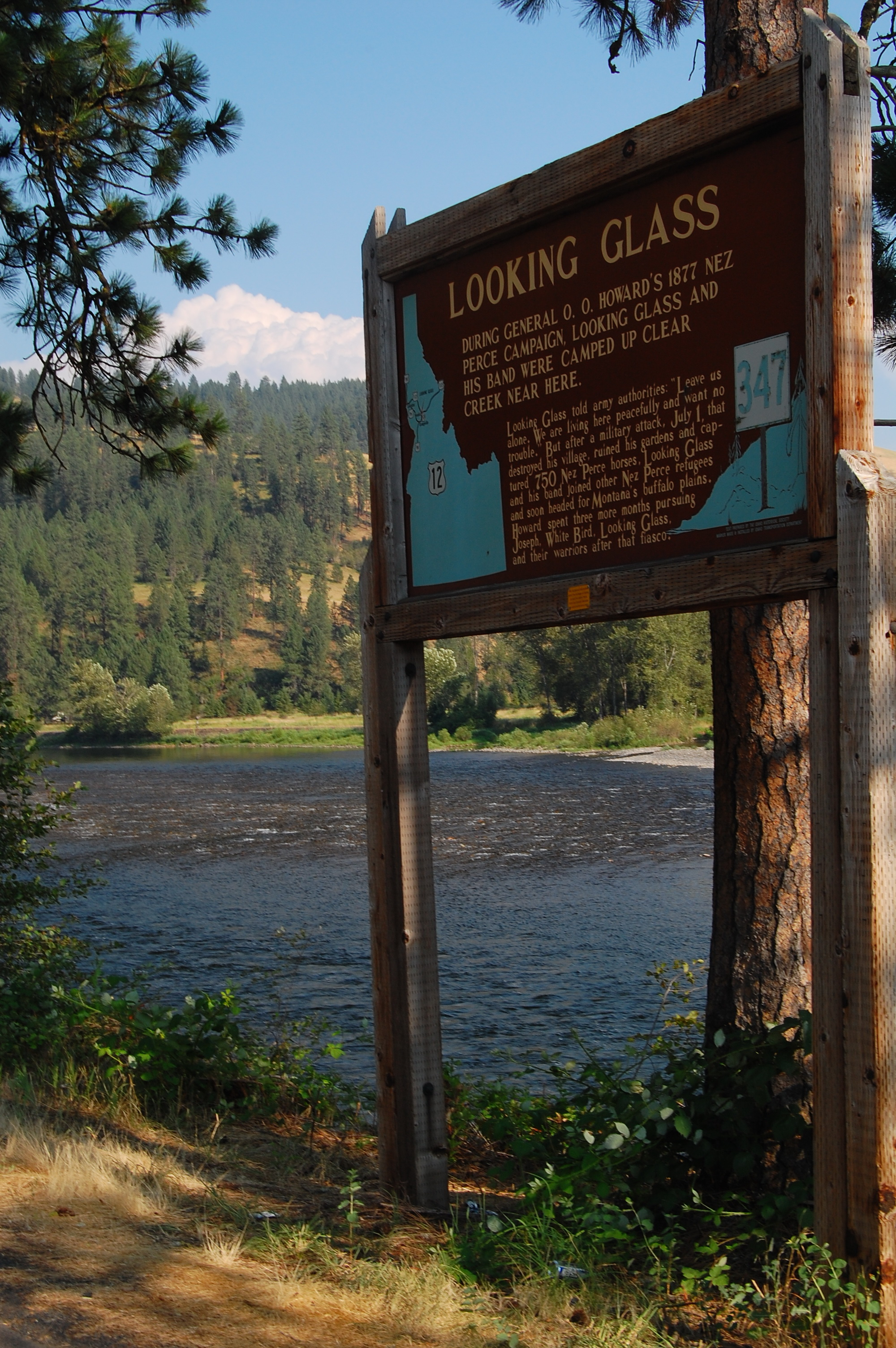 Looking Glass Village along the Nez Perce National Historic Trail, near Kooskia, Idaho. US Forest Service photo, by Roger Peterson